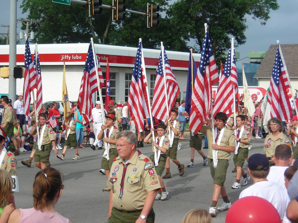 July 4th 2007 - 050.jpg